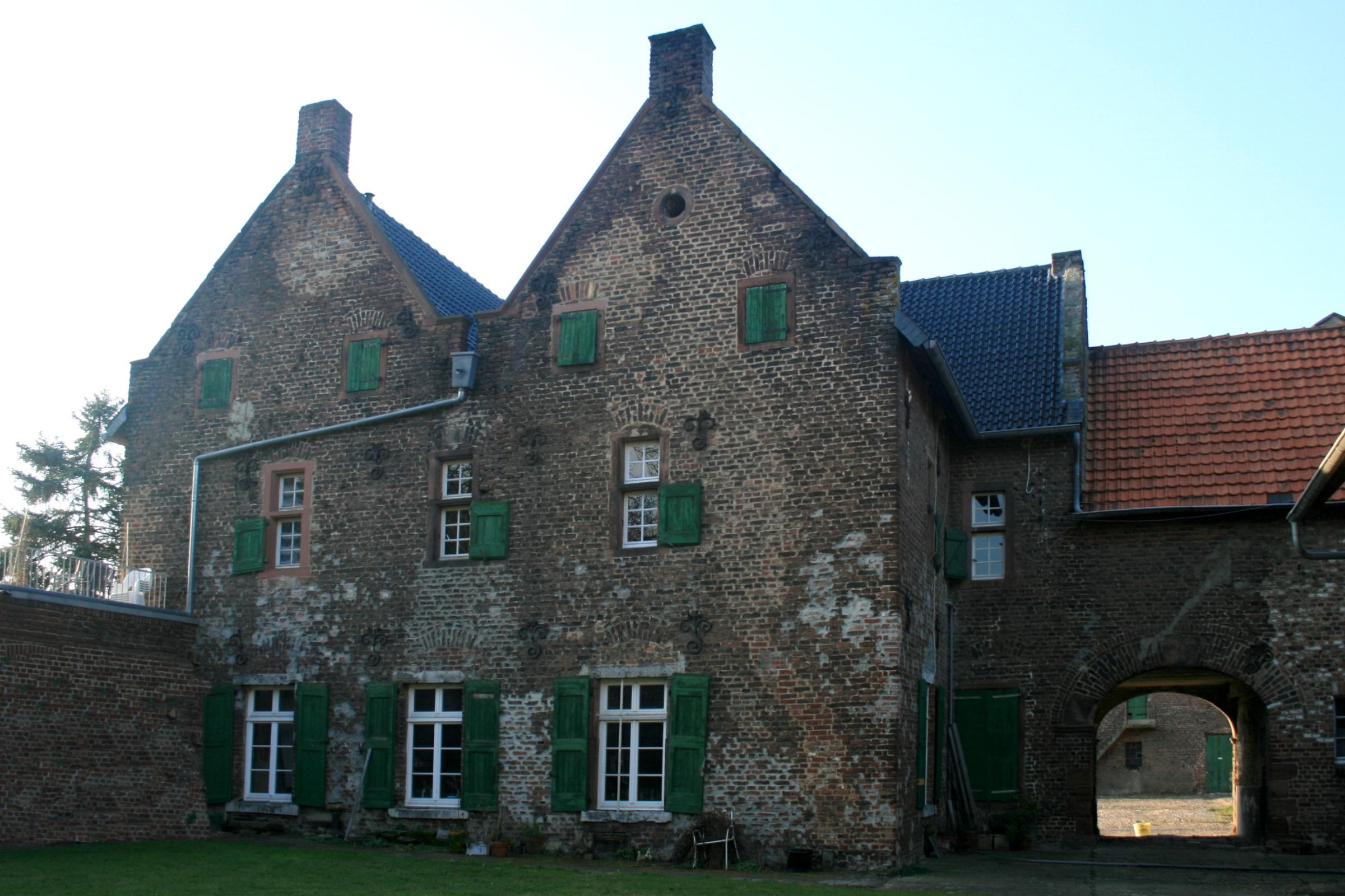 Cultural heritage monument No. 30 in Jülich